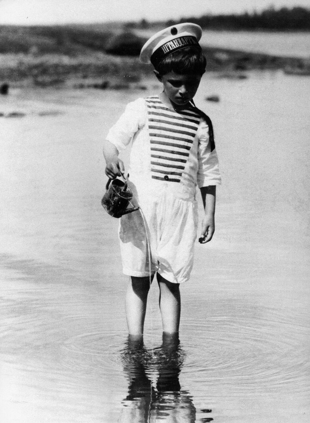 Tsarevich of Russia Alexei Nikolaevich with a watering can, probably Finland.